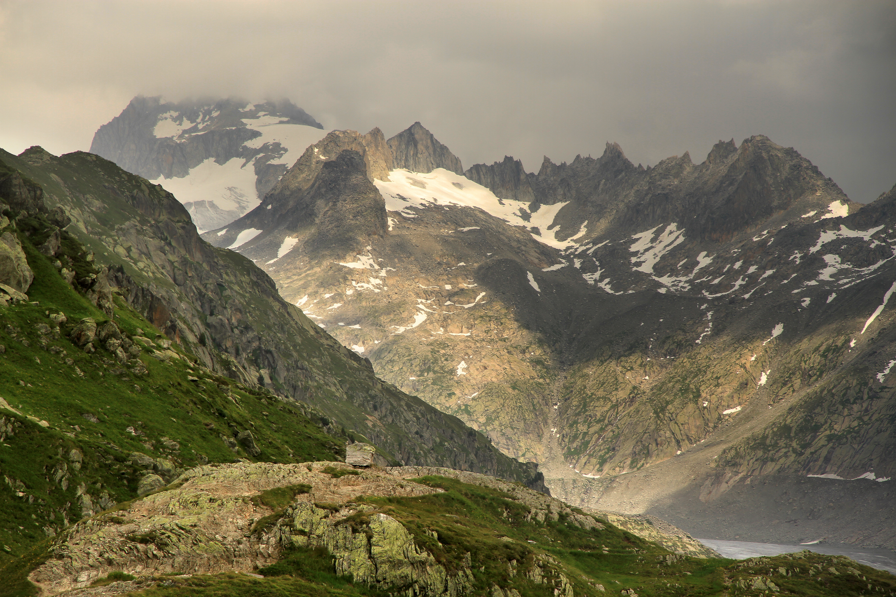 Galenstock and Gross Furkahorn as seen from Grimselpass, Wallis, Switzerland in 2010 July.